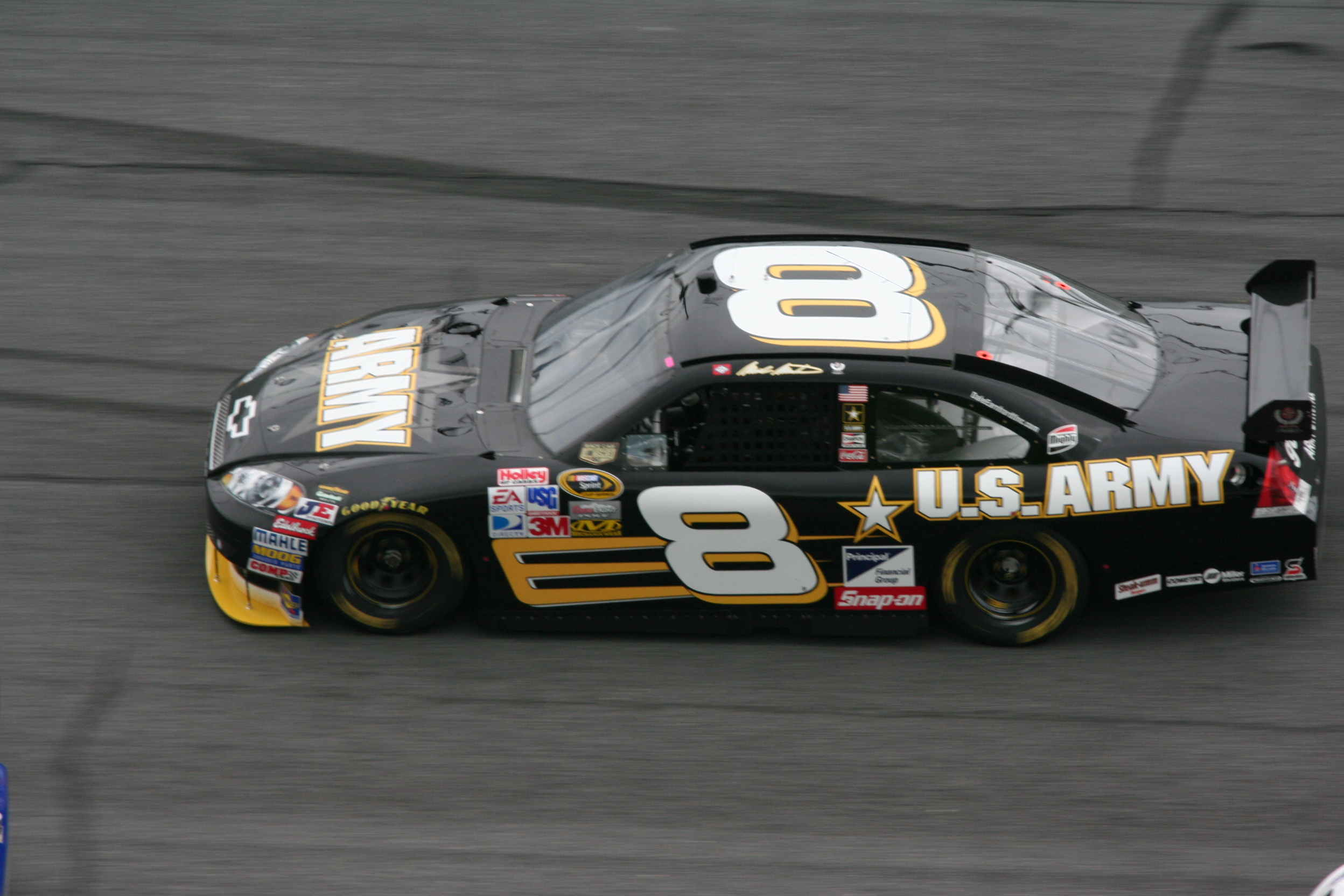 Shot by The Daredevil at Daytona during Speedweeks 2008Mark Martin Army Chevy Impala